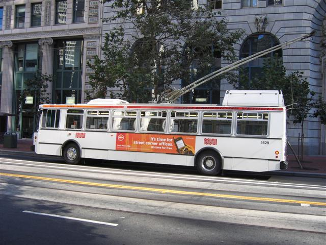 An ETI trolleybus of Muni on Market Street in San Francisco.